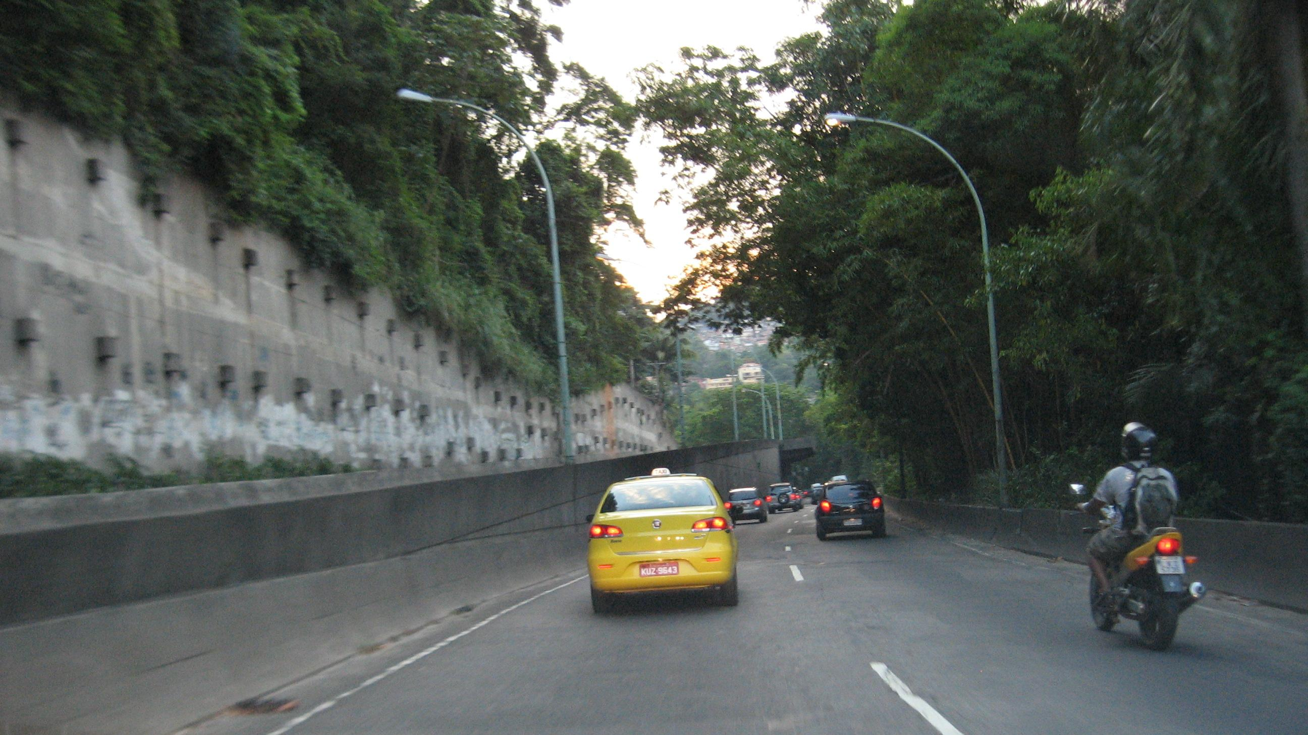 Lagoa-Barra Highway-Rio de Janeiro-Brazil